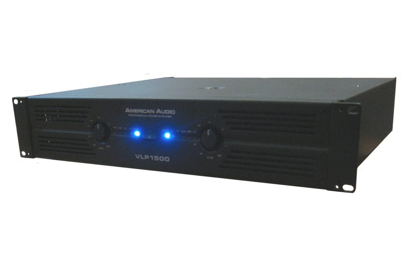 American Audio VLP-1500 audio amplifier (2x750W RMS into 4Ohms)